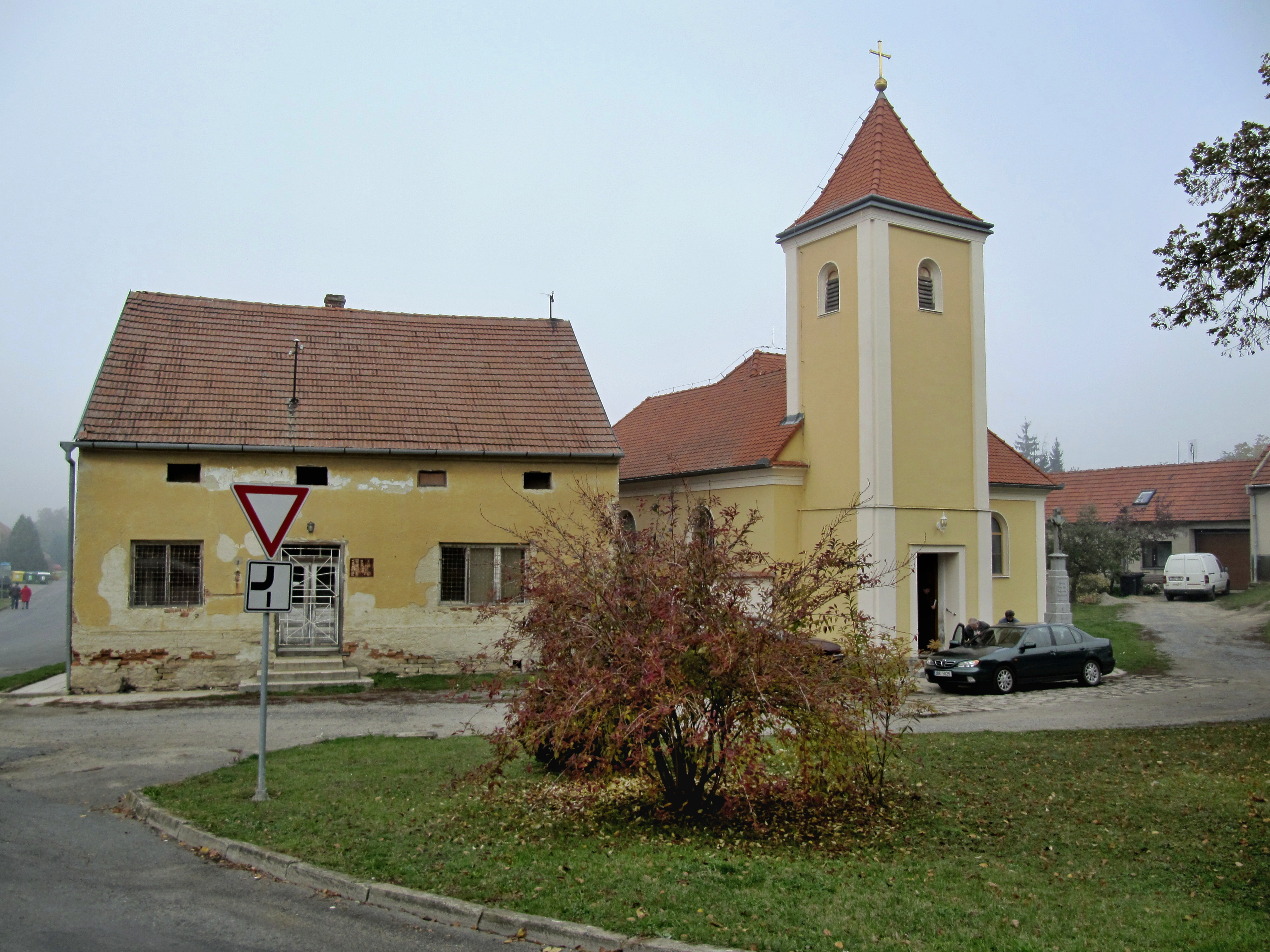 Heršpice in Vyškov District, Czech Republic. Catholic Chapel of St. Matthew from 1870.